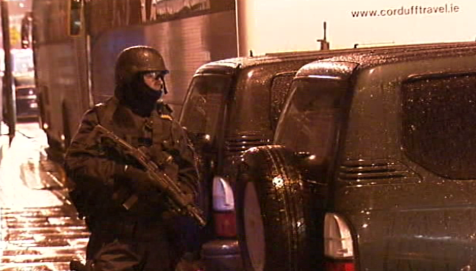 A member of the Garda Emergency Response Unit on patrol in Dublin after a spate of gangland killings (Seen holding an IMI Uzi, no longer in-service).